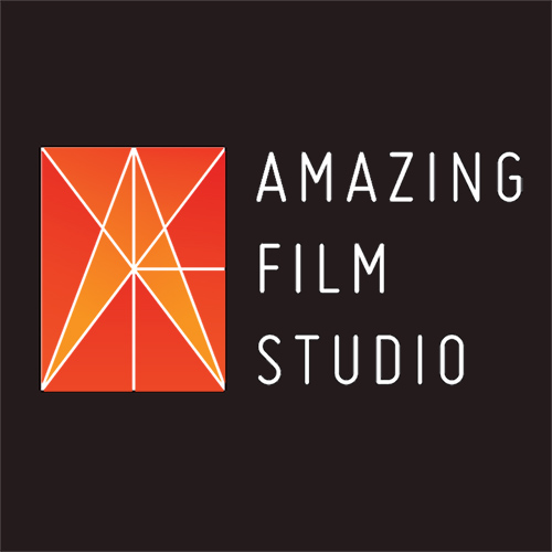 The logo of Amazing Film Studio.